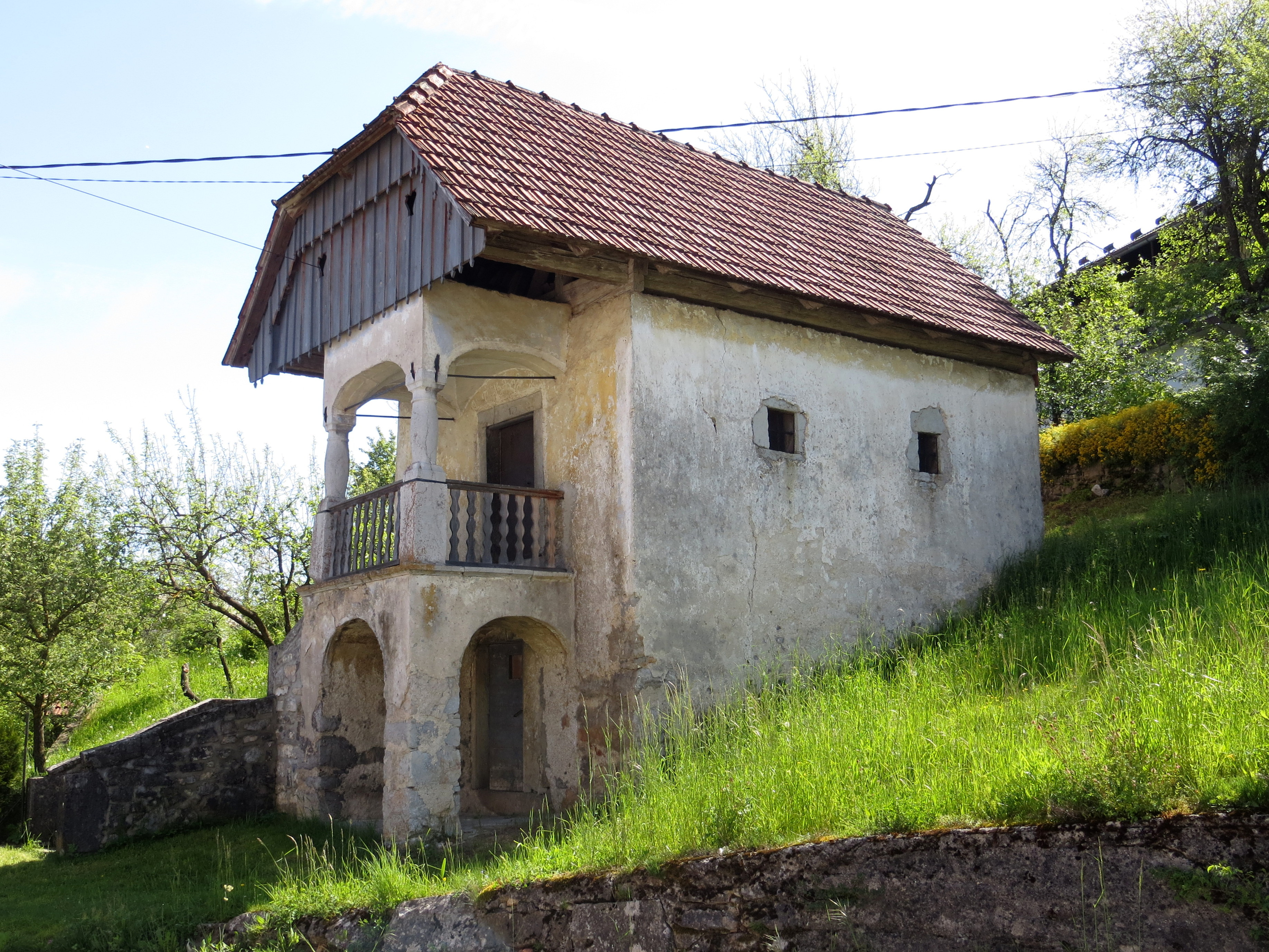 Herbljan Granary in Žerovnica, Municipality of Cerknica, Slovenia.